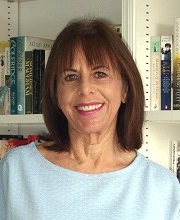 Author Liz Hodgkinson in her own home photographed on 31 March 2017 by Ian P. Hudson